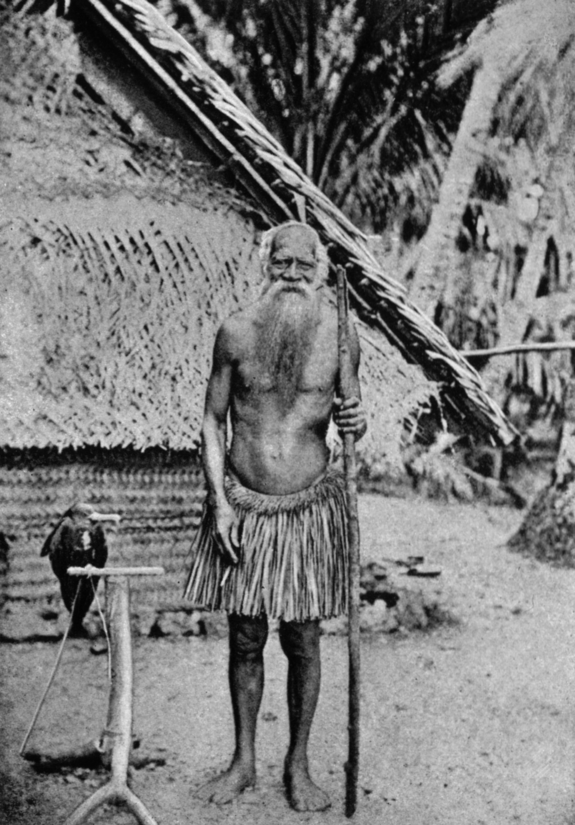 Old Nauruan man with frigate bird, Nauru